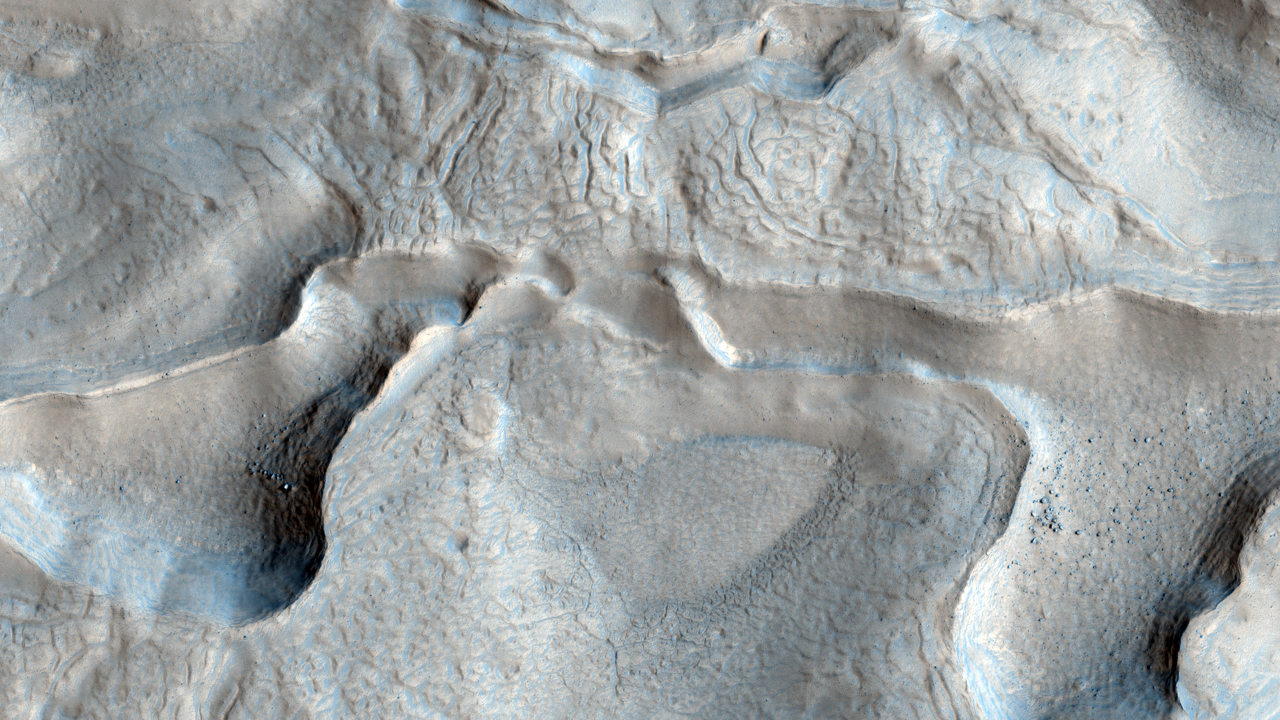 Stunning Landscape Near Mamers Valles on Mars. HiRISE Photo ID: ESP_028313_2220 Science Theme: Geologic Contacts/Stratigraphy. This region of Mars has been long studied for its evidence of glacial-like flow features. The landscape is dominated by flat top mesas and flat valley floors. But a closer look shows evidence that soil material is flowing ever so gradually from the edges of the mesas out into the valleys. Such flow can result from excessively ice-rich deposits analogous to glaciers. "Streamlines" (curved ridges) mark the flow direction, while "flow fronts" mark where material has reached its furthest extent or where material has collided with an obstacle or otherwise bunched up. The close up view from HiRISE reveals even stranger textures on the valley floor. Scarps and hills appear twisted like taffy, probably the result of the slow movement of the subsurface ice. Other areas that appear flat and smooth at lower resolution are expanses of extremely regular small pits and mounds at HiRISE resolution. One suggestion has been that these small-scale textures are the result of sublimation (evaporation) of subsurface ice combined with the taffy-like shifts in the ground surface.